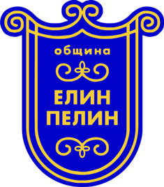 Emblem of town of Elin Pelin